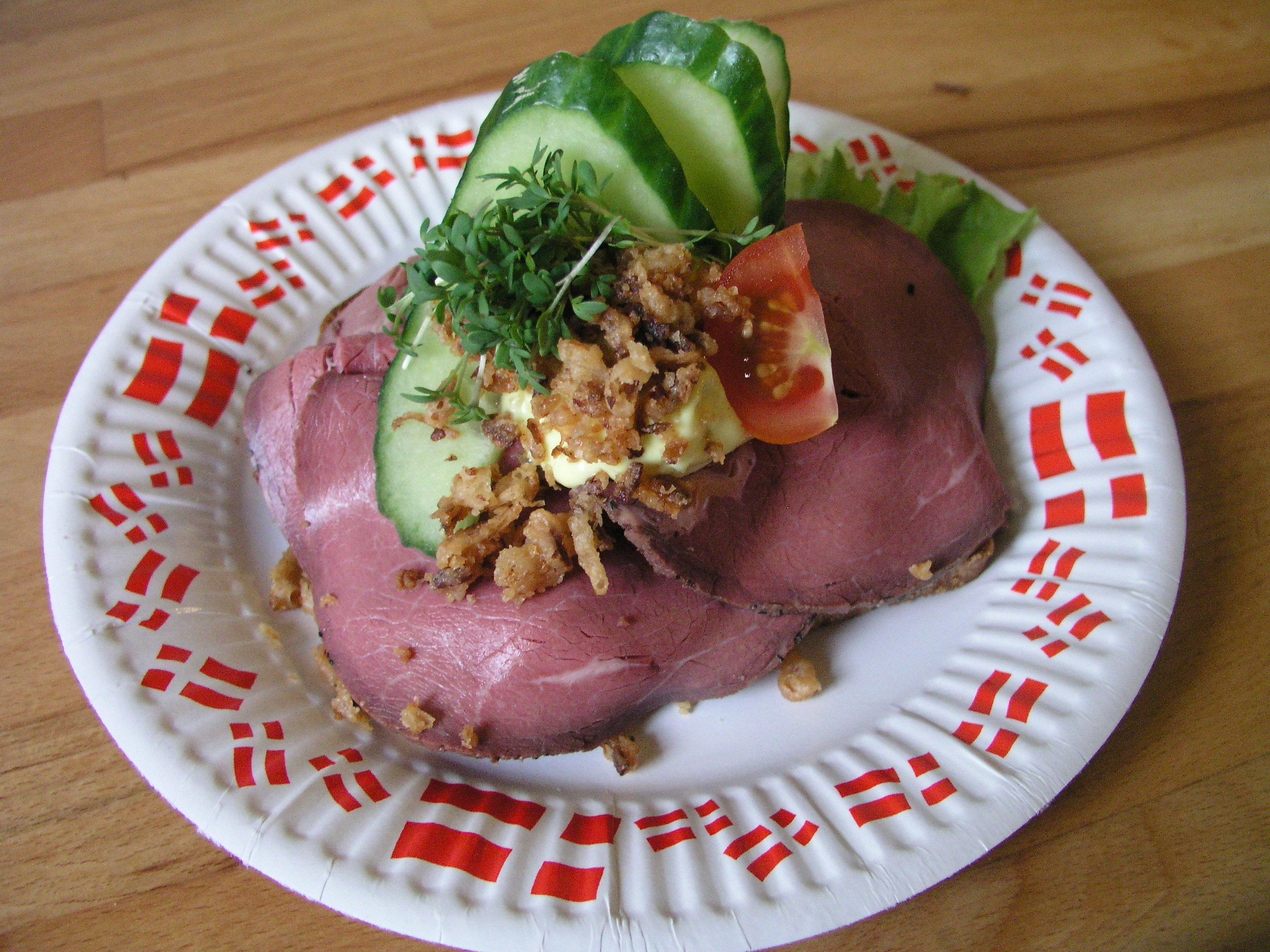 Danish open sandwich (smørrebrød) on dark rye bread (almost covered) with xxx meat, iceberg salad, cucumber, danish remoulade, garden cress, danish roasted onions and tomato.